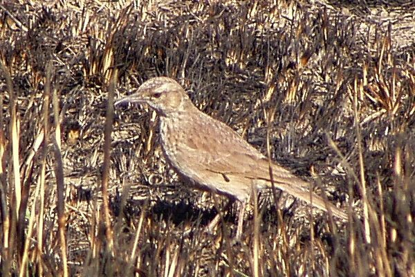 Eastern Long-billed Lark (Certhilauda semitorquata). Location: New Amalfi, KwaZulu-Natal, South Africa For more information